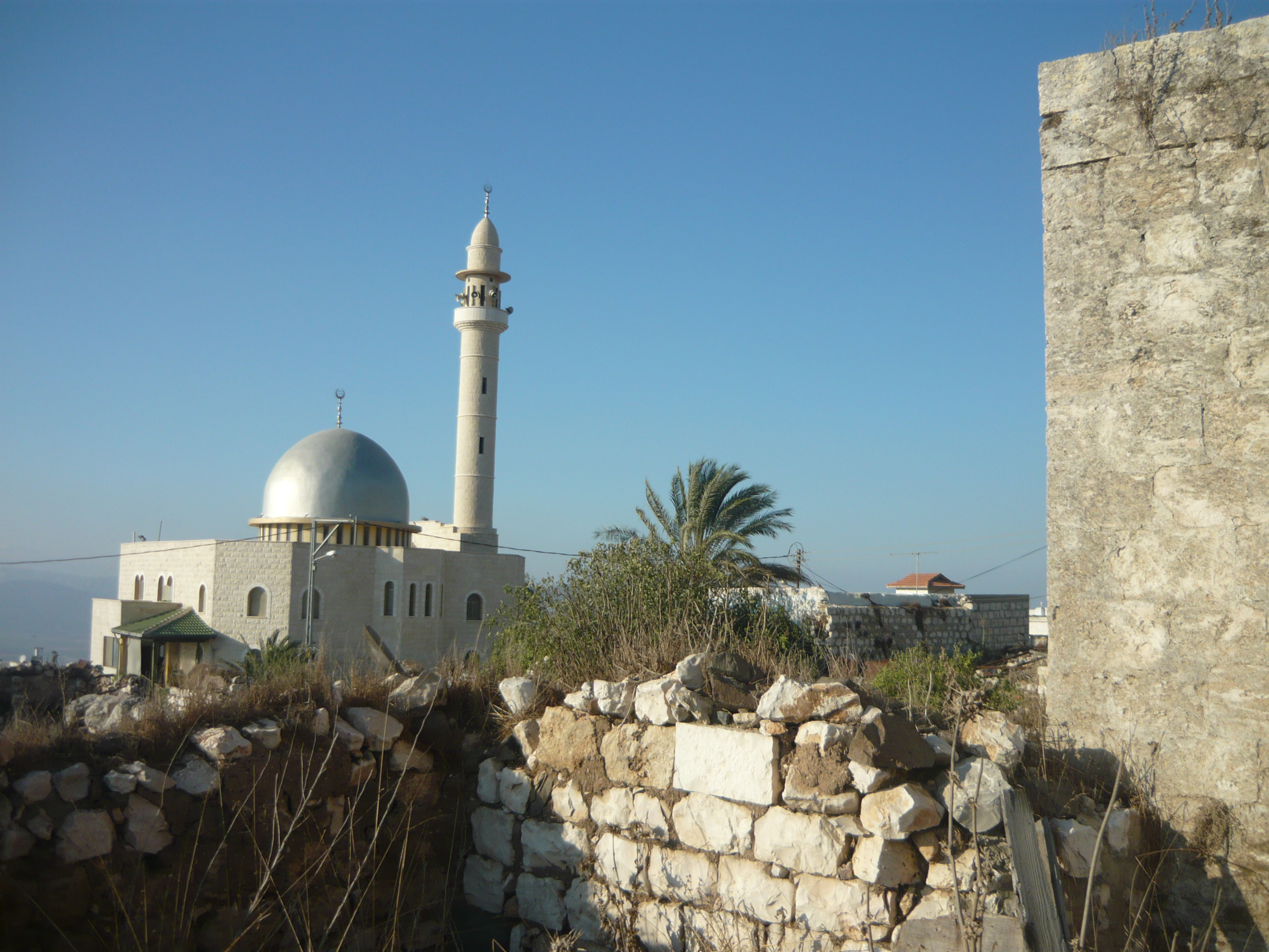 mosque in dehi המסגד בדחי